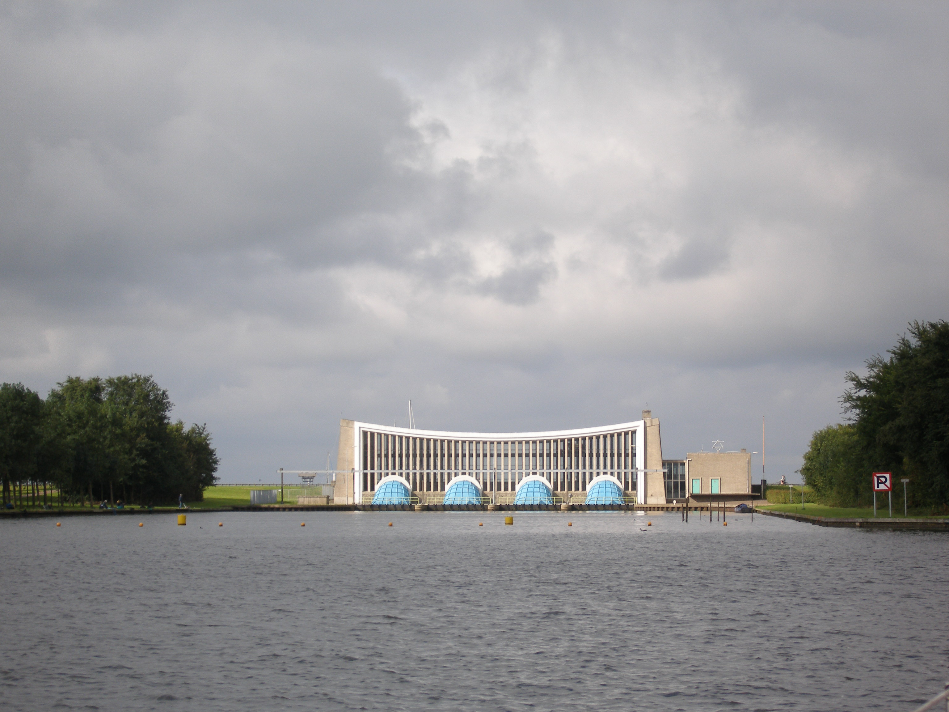 The J.L. Hooglandgemaal is a pumping station in Stavoren, the Netherlands.